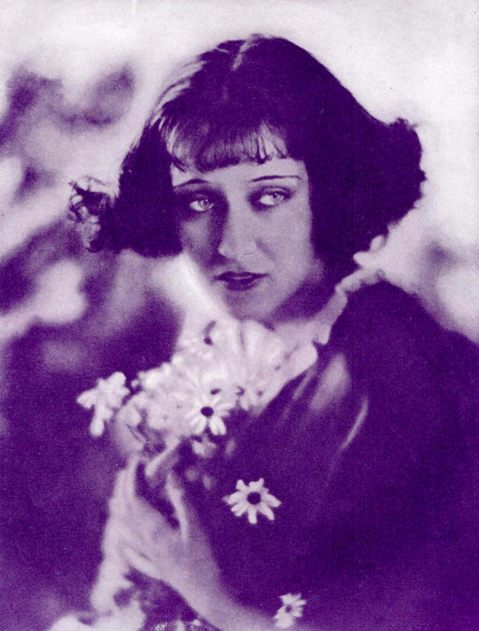 Gloria Swanson. Filmplay Journal, August 1921